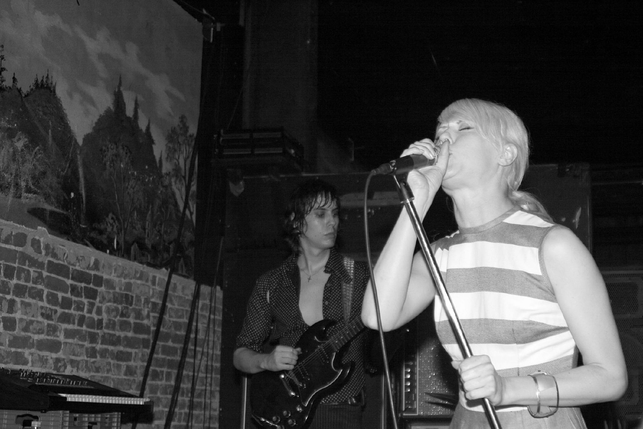 Glass Candy and other fun at The Smell, 2006-05-21.